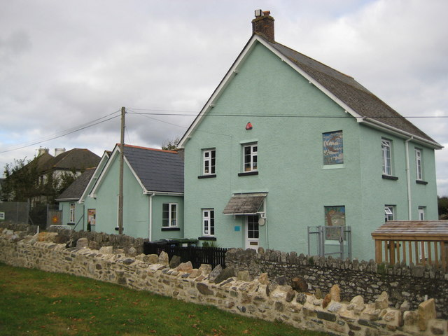 Ilsington Primary School. Photographed from within the churchyard of 1030512, the school began life as a National School, built on the site of the old Manor House. In the 1881 Census the occupants of School House were: John TALBOT, head of the household, unmarried, aged 21, born Lilleshall, Shropshire, occupation school master Mary TALBOT, his mother, a widow, aged 52, born Lilleshall, Shropshire Martha TALBOT, his sister, unmarried, aged 24, born Lilleshall, Shropshire, occupation school sewing mistress Eleanor TALBOT, his sister, aged 12, born Lilleshall, Shropshire, a scholar The school's website is here